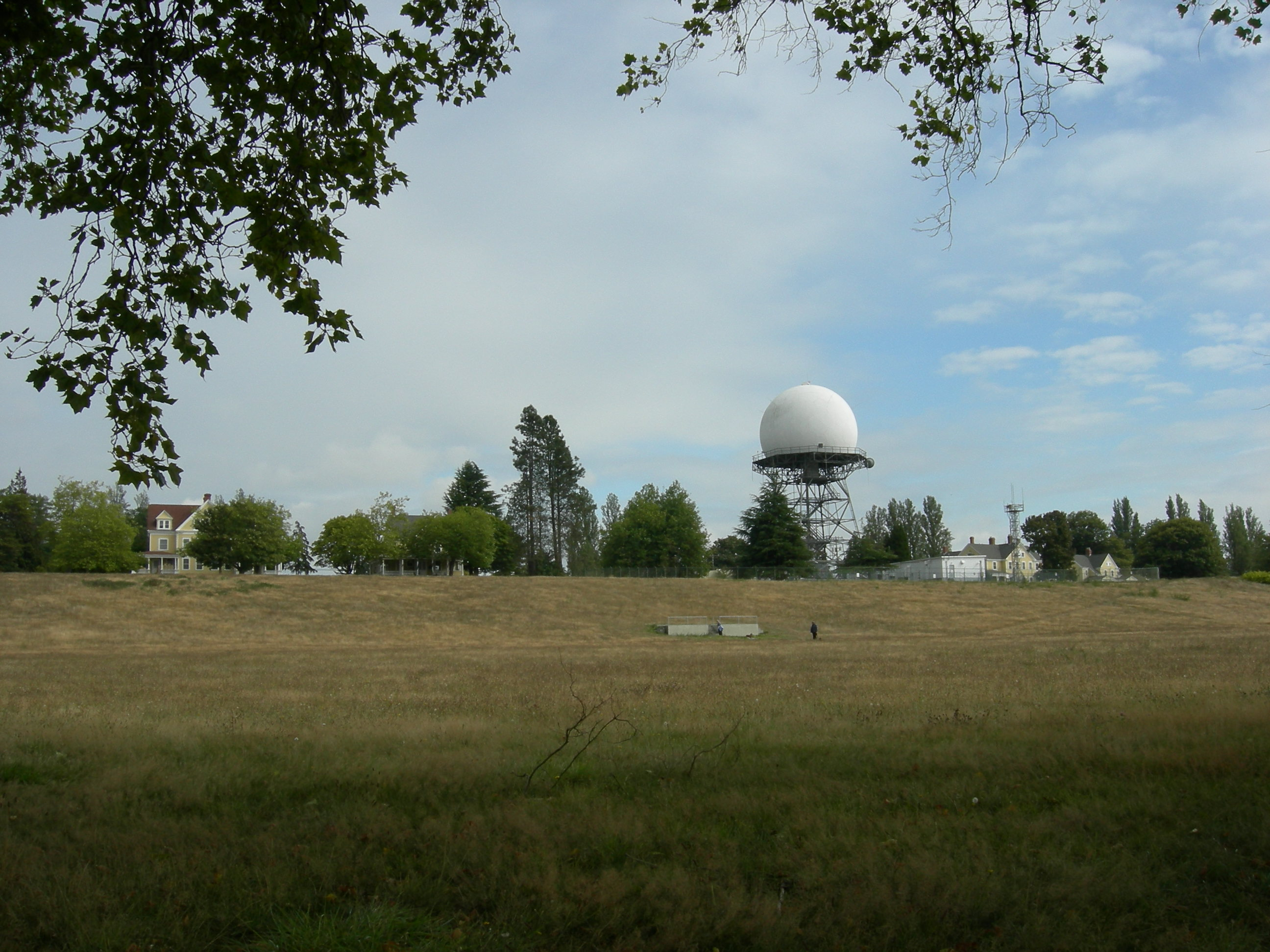 Looking east from the south meadow towards one of the parts of Fort Lawton, Seattle, Washington that is still under military control (as of 2007). The roughly spherical tower (presumably a Doppler radar tower) is immediately over the Air Defense Command Operations Building. [1] Fort Lawton is on the National Register of Historic Places.